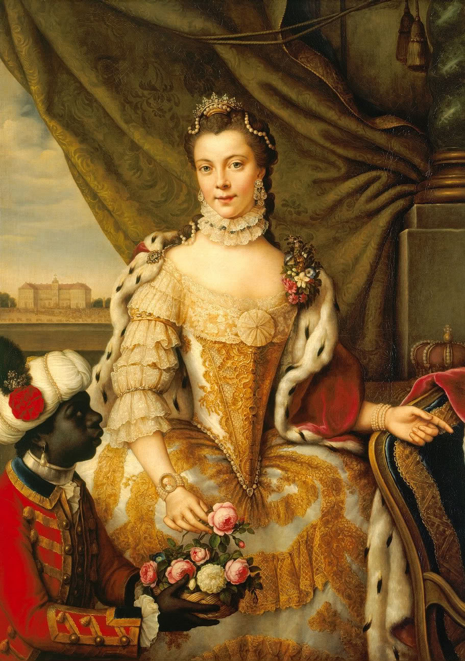 Portrait of Queen Charlotte (1744-1818) when Princess Sophie Charlotte of Mecklenburg-Strelitz (1744-1818)